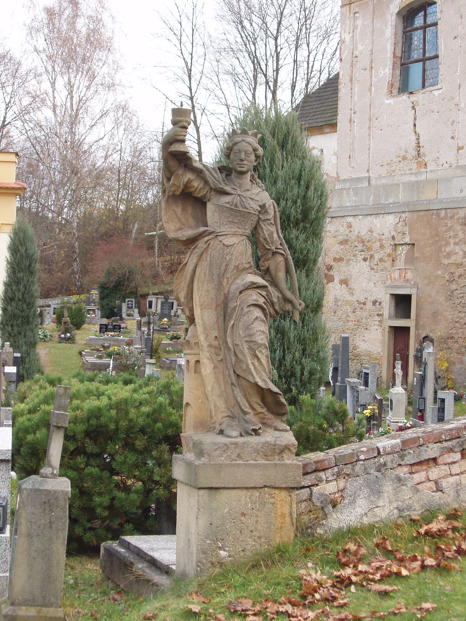 Statue of St. Barbara in cemetery in Manětín, Plzeň Region, Czech Republic